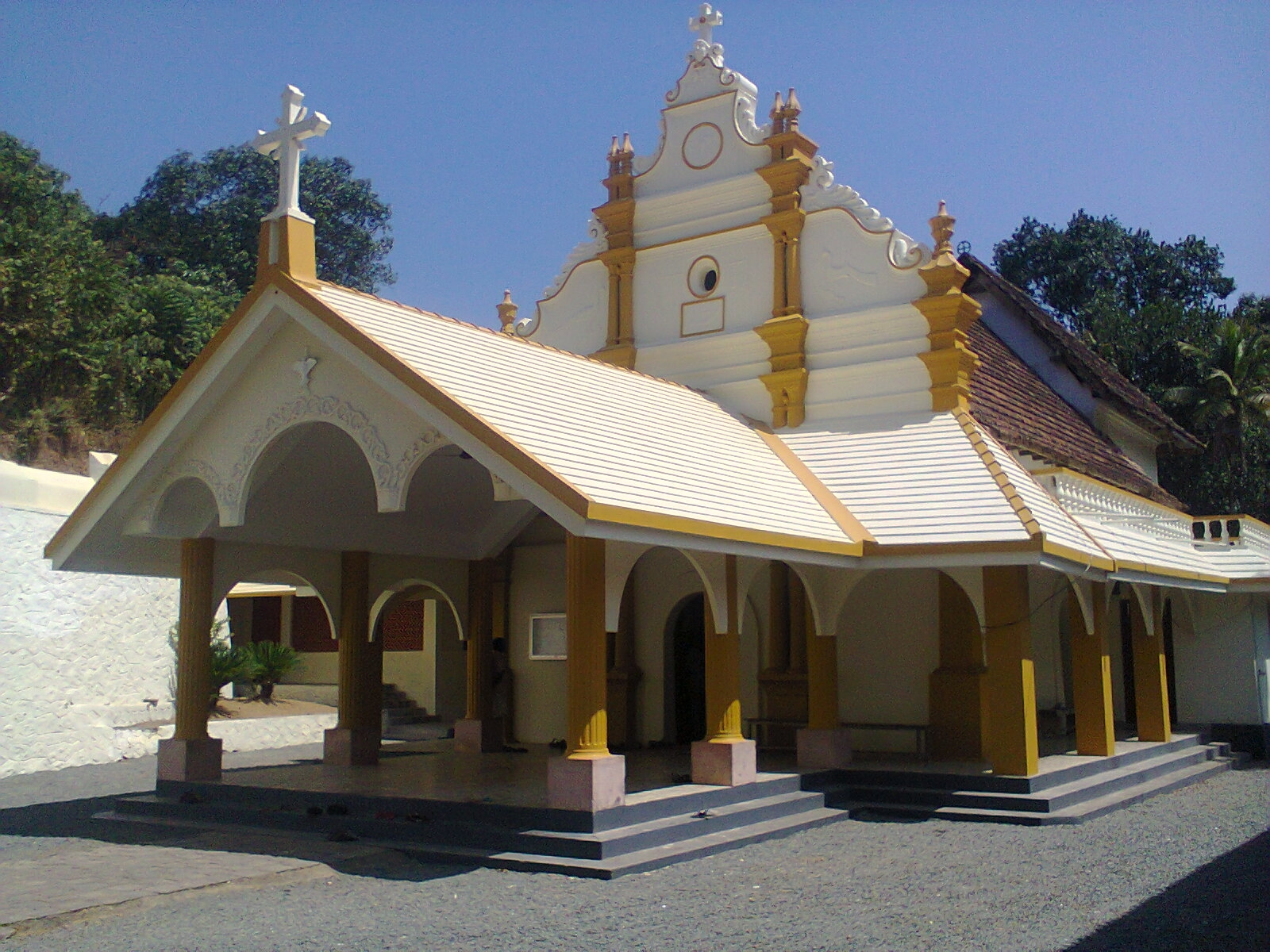 Vadayaparambu Mar Bahanans Church. Marthoma Christians\ Malankara nazranis - converts by St. Thomas Apostle is an ancient group based in Kerala, India. The picture depicts the traditional church used by St. Thomas Malankara Christians.